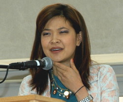 Suchin Pak speaking at an Asian Pacific American Heritage Month celebration